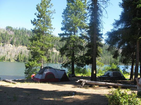 South Shore Campground at Suttle Lake in the Deschutes National Forest of Oregon